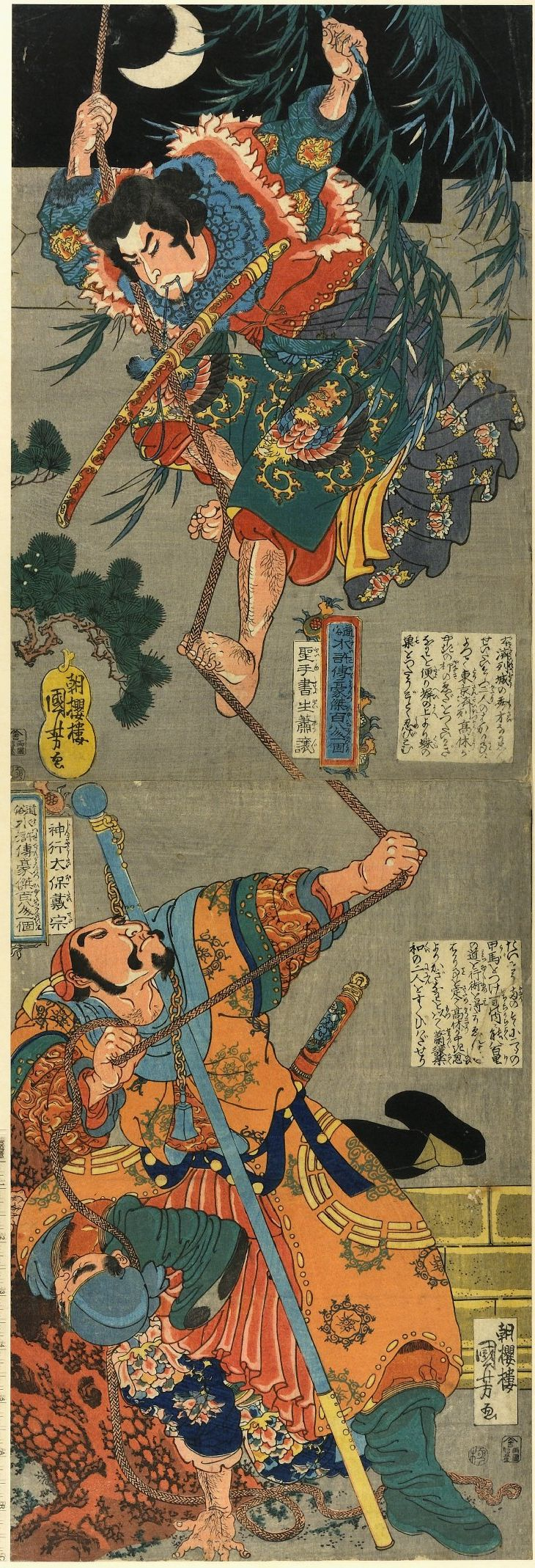 Xiao Rang 蕭讓 (top) descending castle wall, with Dai Zhong 戴宗 (bottom)